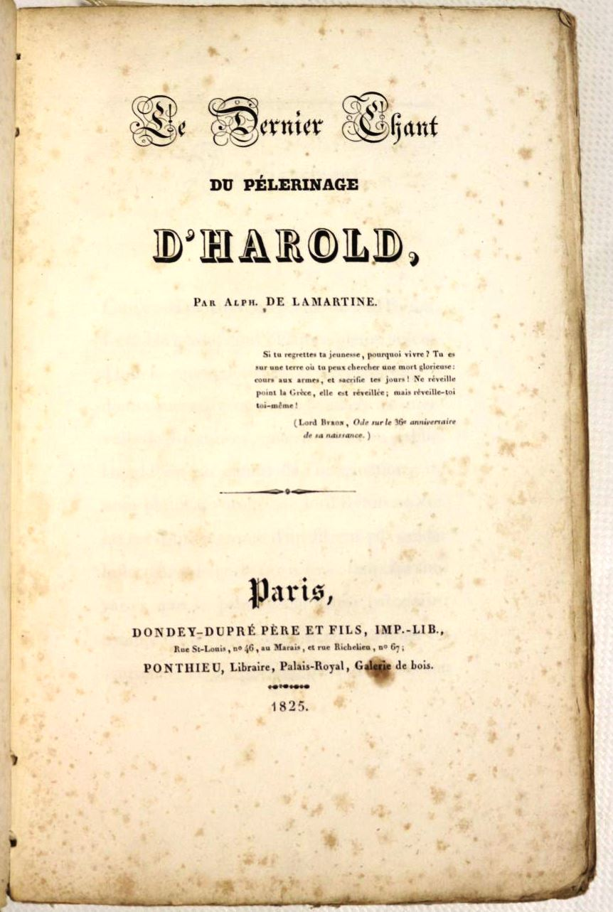 Title page of Alphonse de Lamartine's Le dernier chant du pèlerinage d'Harold, written after news of Lord Byron's death and published in Paris in 1825